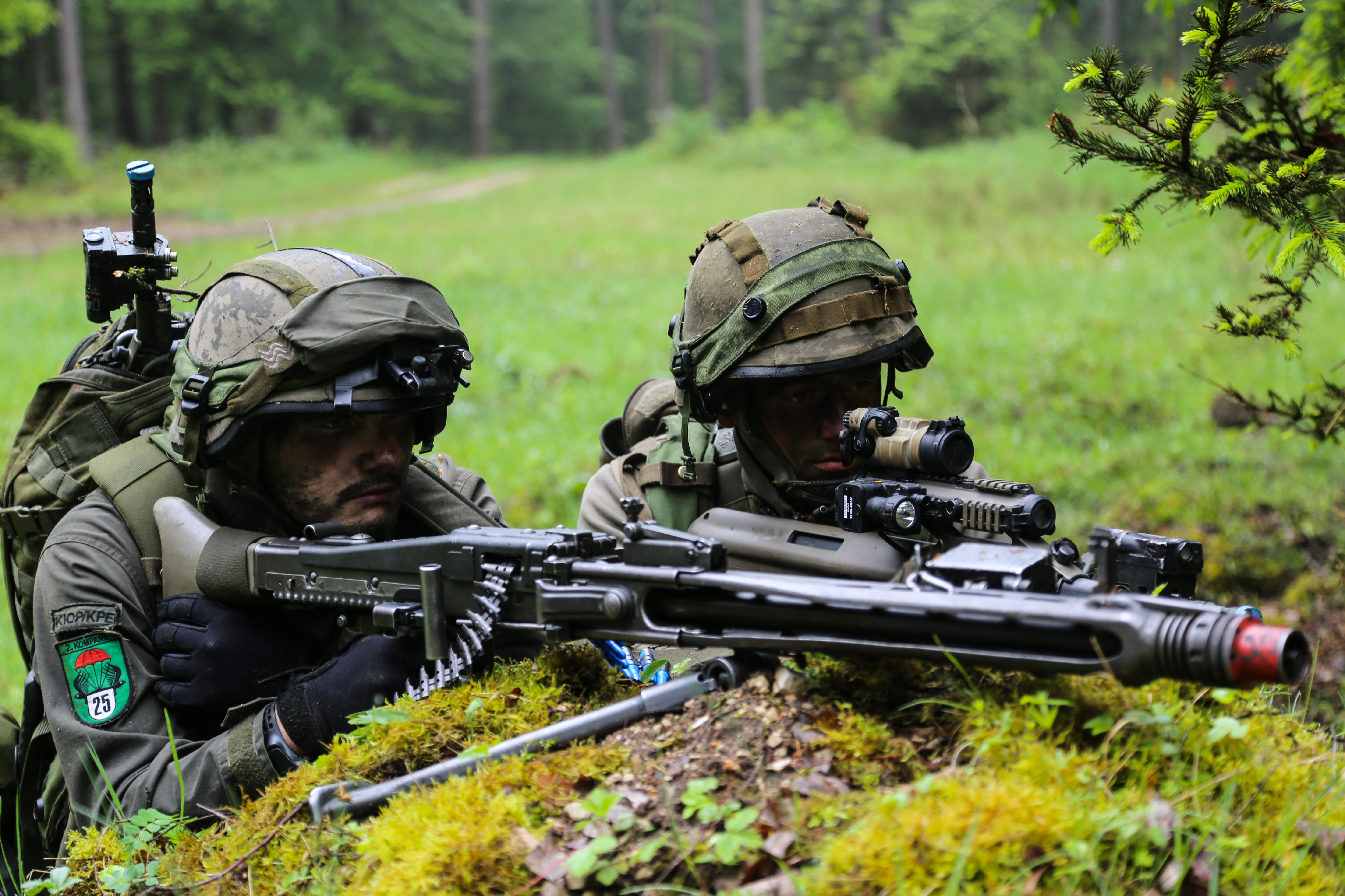 Austrian soldiers of 2nd Company, 25th Infantry Battalion, 7th Infantry Brigade provide security during exercise Combined Resolve II at the Joint Multinational Readiness Center in Hohenfels, Germany, May 19, 2014. Combined Resolve II is a multinational decisive action training environment exercise occurring at the Joint Multinational Training Command’s Hohenfels and Grafenwoehr Training Areas that involves more than 4,000 participants from 15 partner nations. The intent of the exercise is to train and prepare a U.S. led multinational brigade to interoperate with multiple partner nations and execute unified land operations against a complex threat while improving the combat readiness of all participants. (U.S. Army photo by Spc. Justin De Hoyos/Not Reviewed)